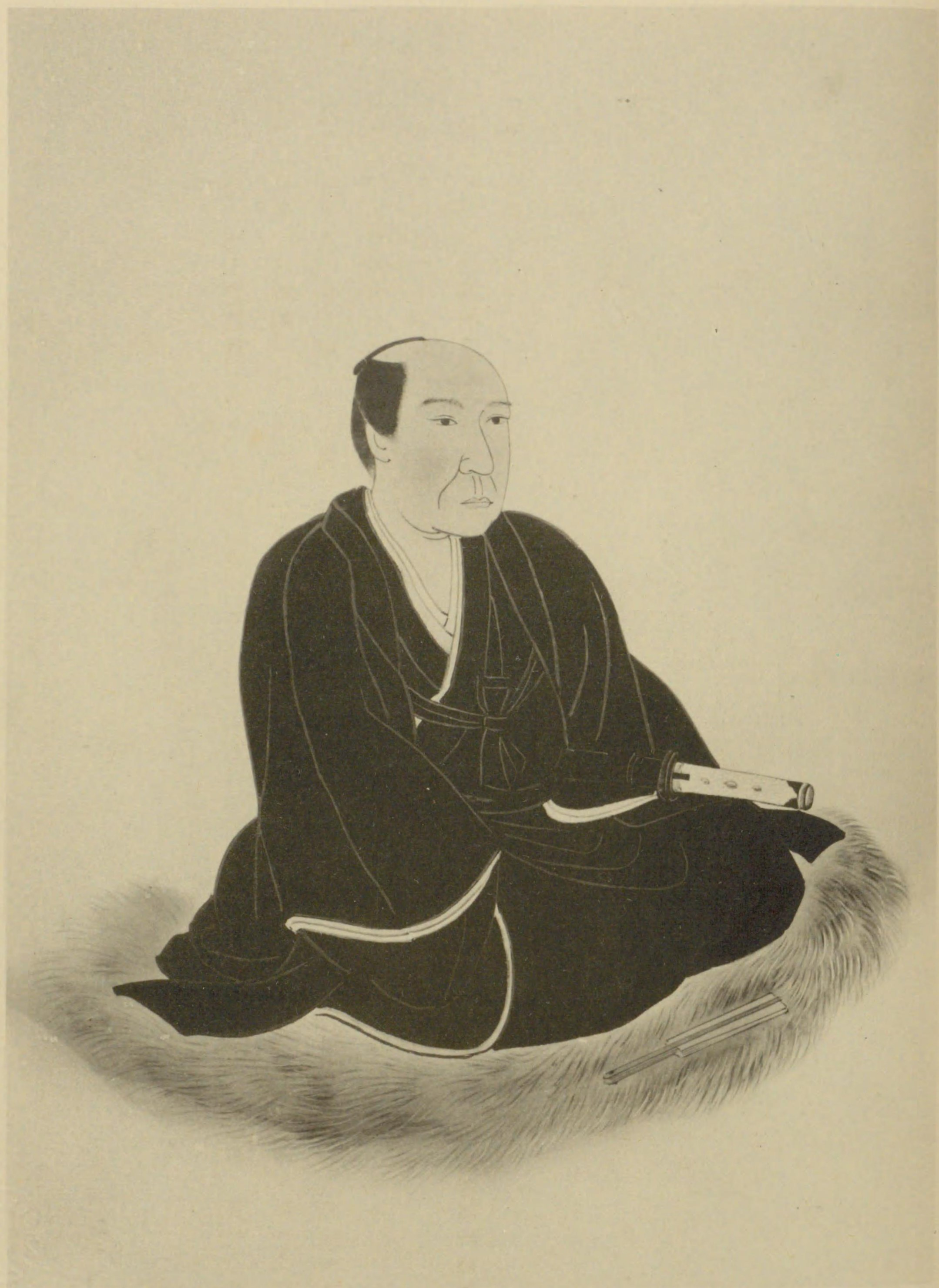 Portrait of Ko Ryosai